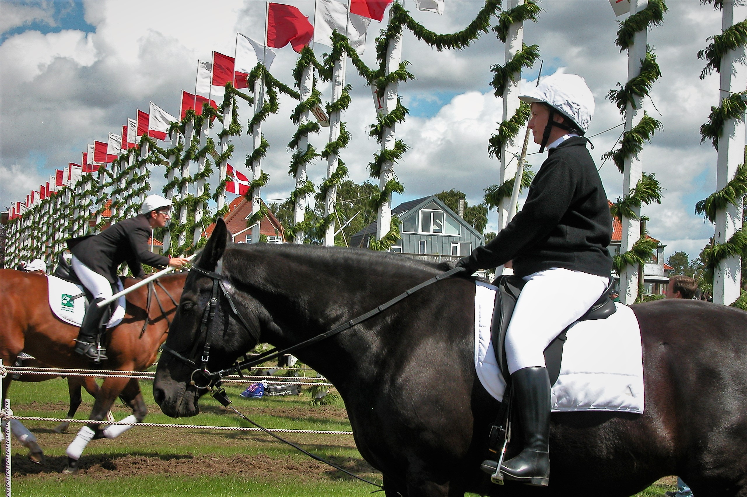 Ringridning, Sonderburg, Denmark